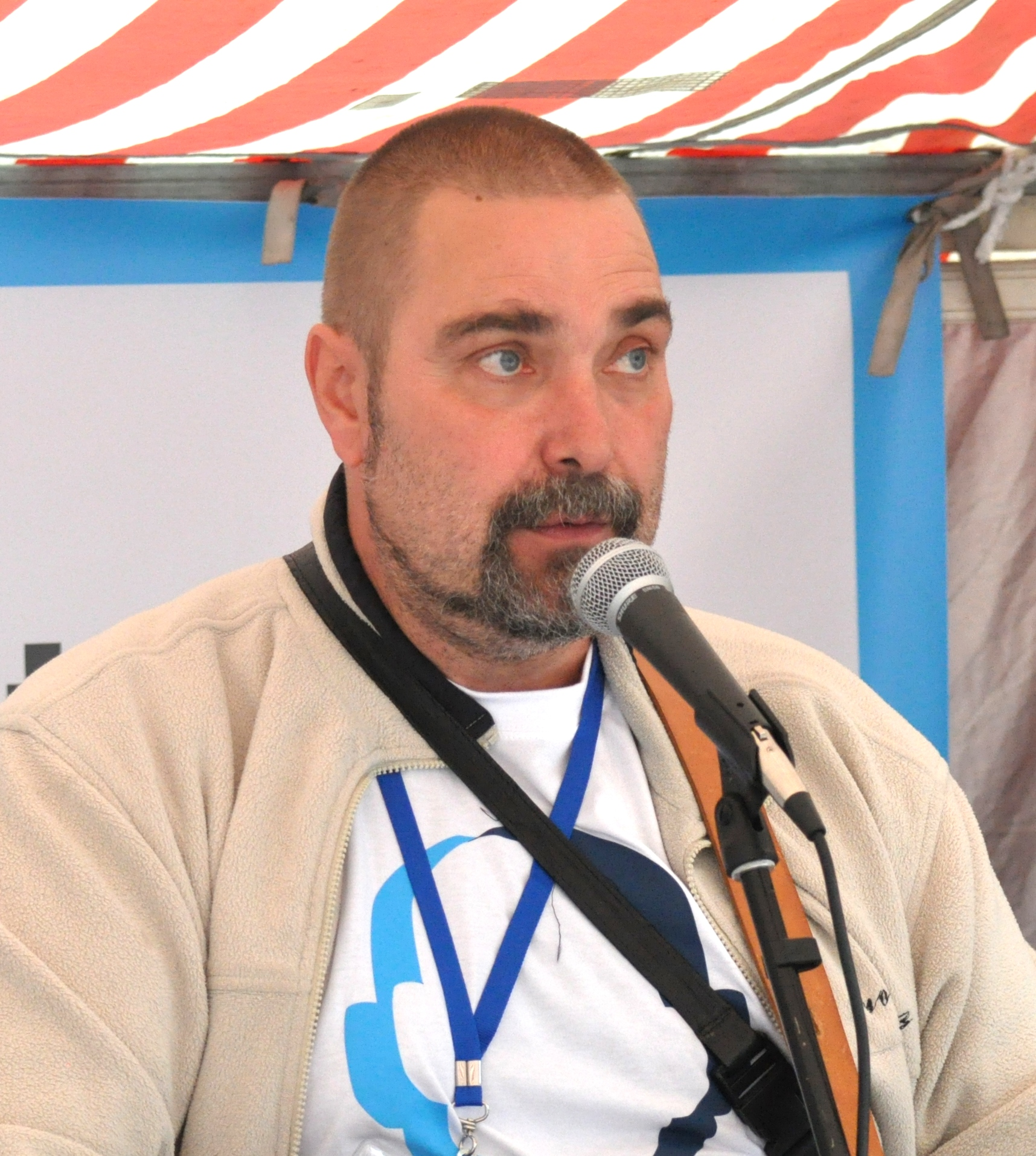 Finnish musician Kosti Kotiranta performing in Pori, 2011.